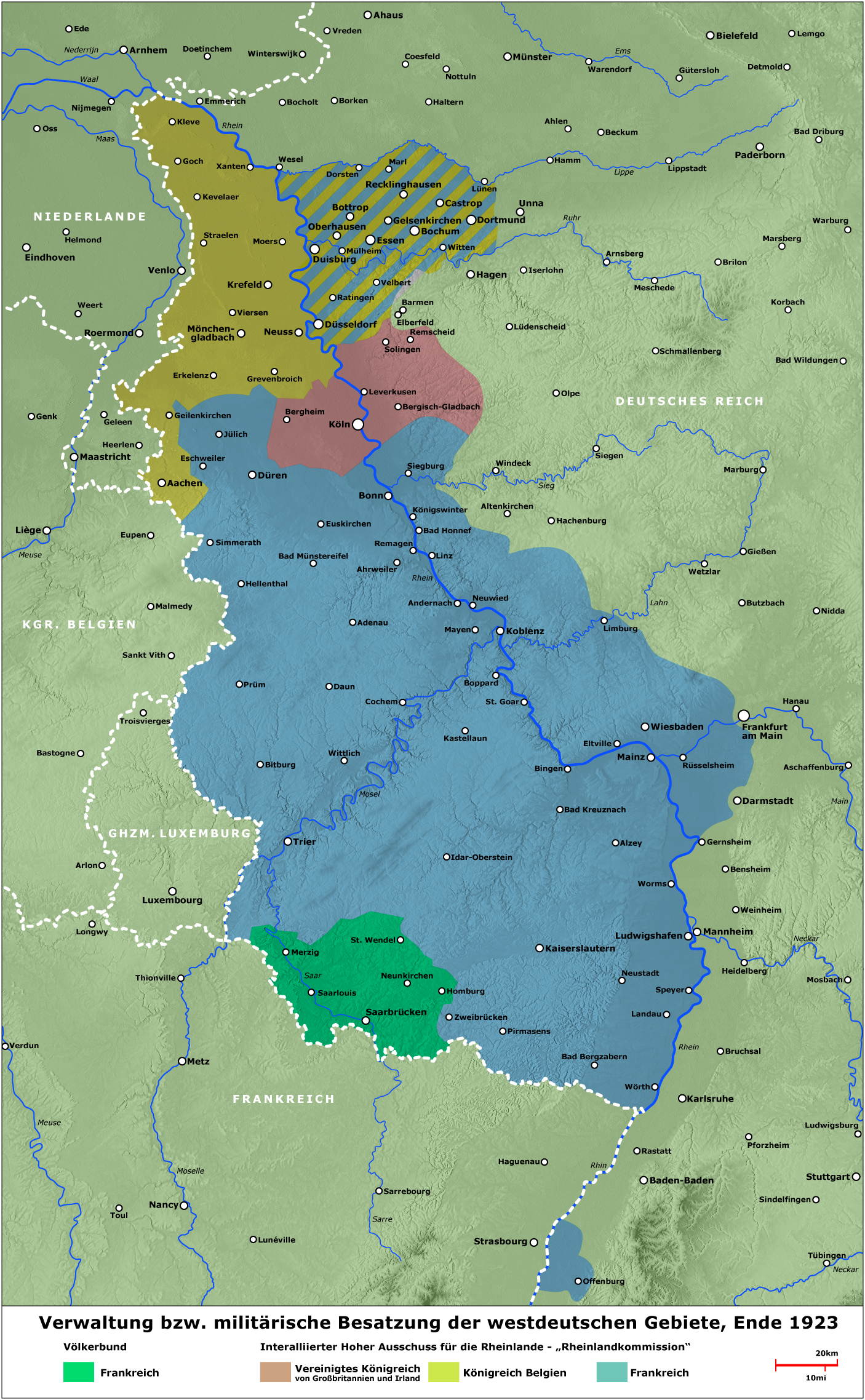 Map - Administration and military occupied zones of western Germany by end of 1923